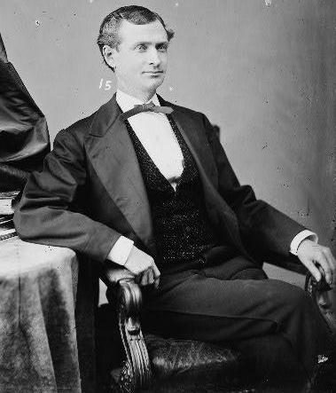 Henry A. Reeves, Congressman from New York